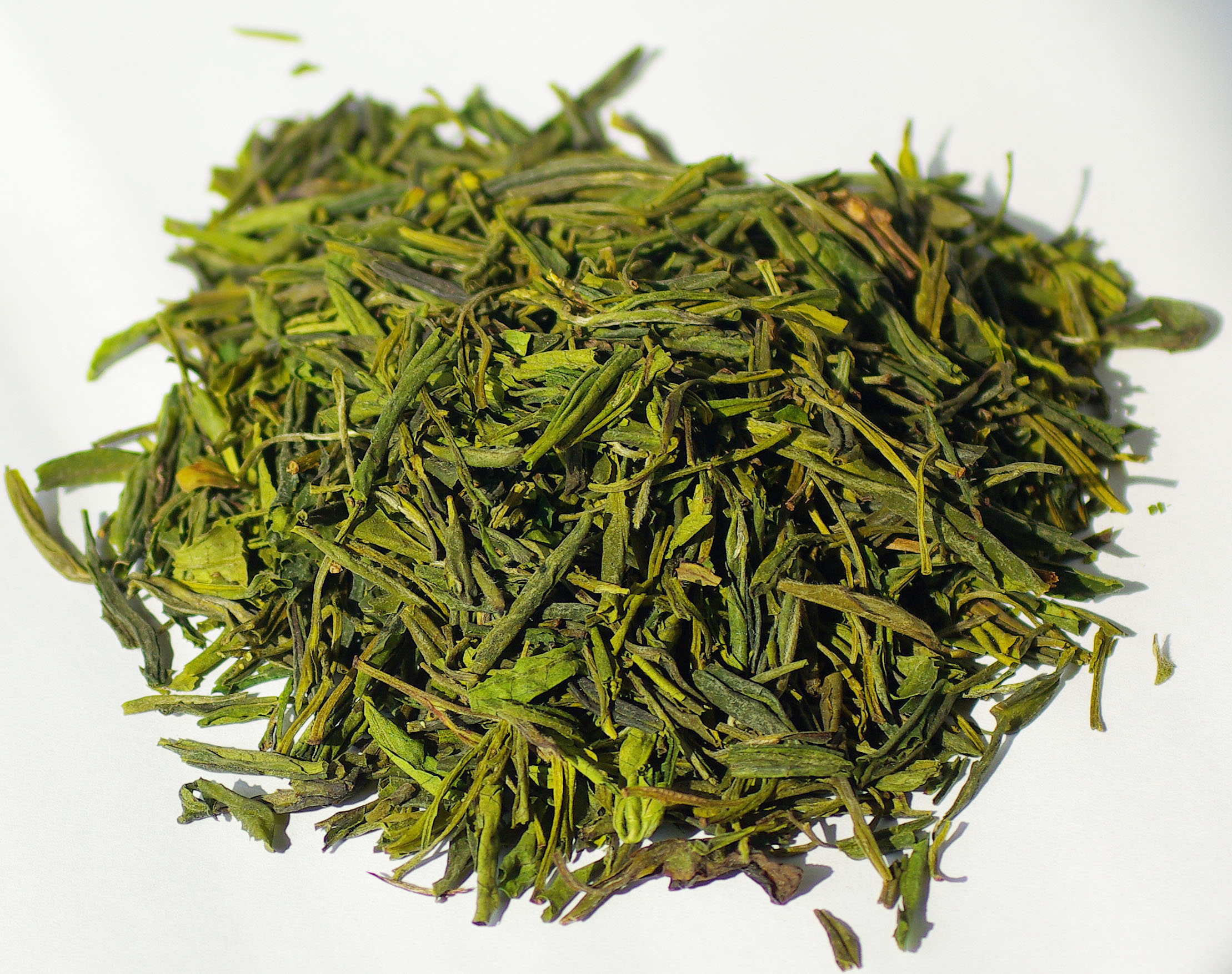 Huoshan Huangya tea leaves